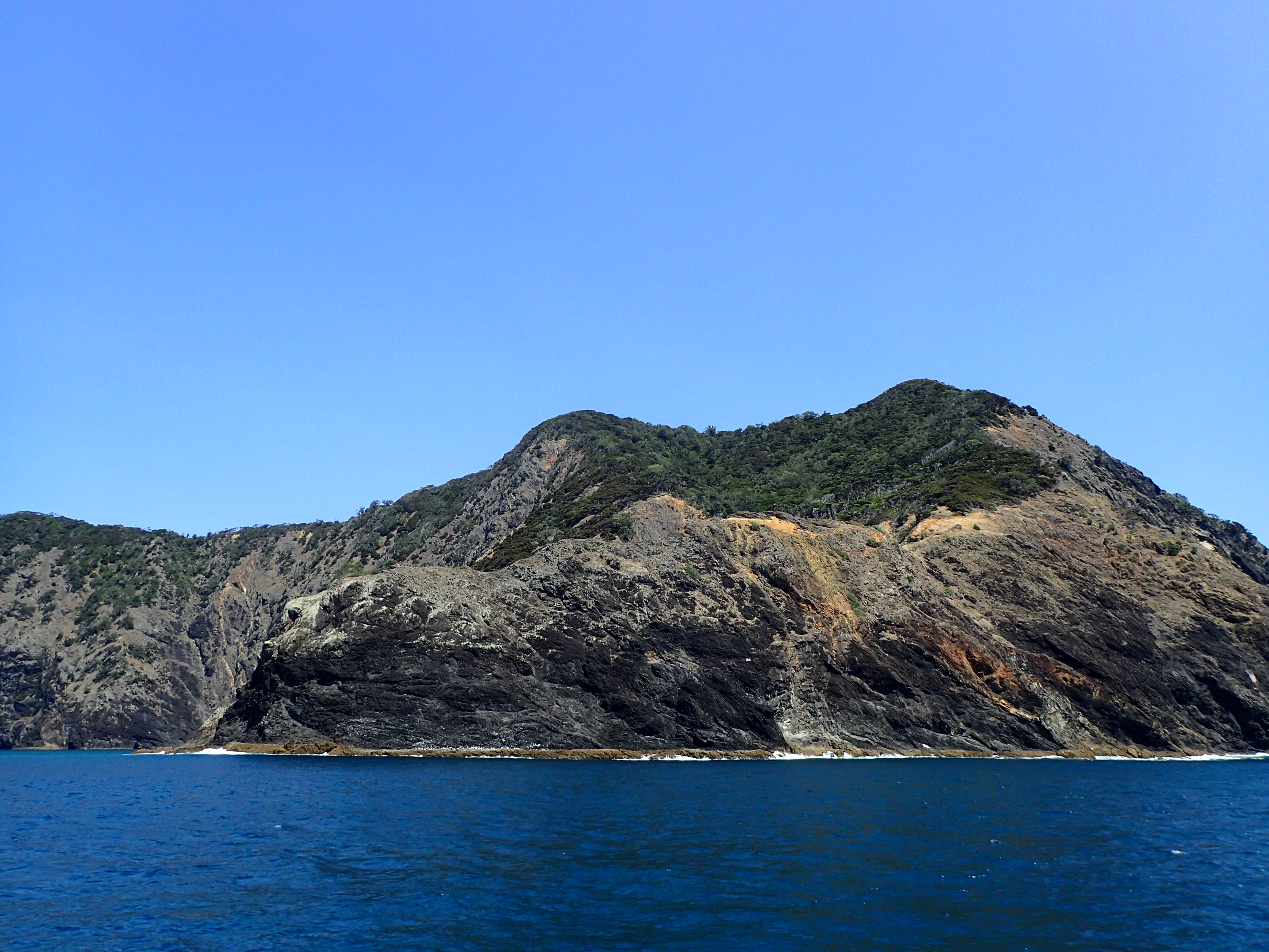 Miners Head on the Northwestern end of Great Barrier Island / Aotea New Zealand / Aotearoa. The site of the sinking of the SS Wairarapa